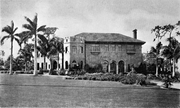 Local call number: N031785 Title: W.J. Howey Manison: Howey-in-the-Hills, Florida Date: ca. 1925 General note: The W.J. Howey Manison [sic], located in Howey-in-the-Hills, Florids, was built in 1925. It was added to the National Register of Historic Places in 1983. Physical descrip: 1 photonegative - b&w - 4 x 5 in. Series Title: General Collection Repository: State Library and Archives of Florida, 500 S. Bronough St., Tallahassee, FL 32399-0250 USA. Contact: 850.245.6700. Persistent URL